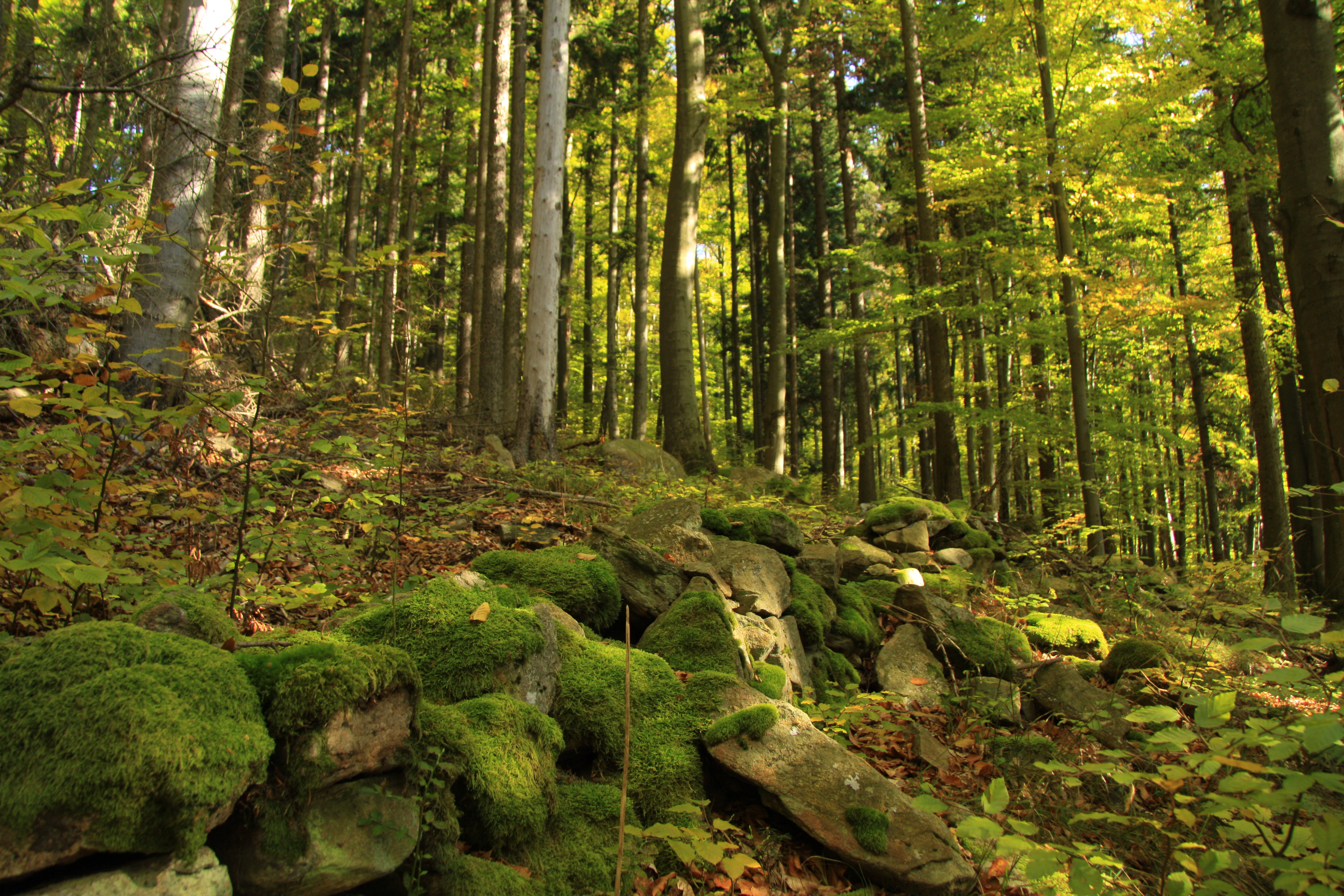 Nature reservePtačí stěna near Brloh village in Český Krumlov, Czech Republic Project: Chráněná území.